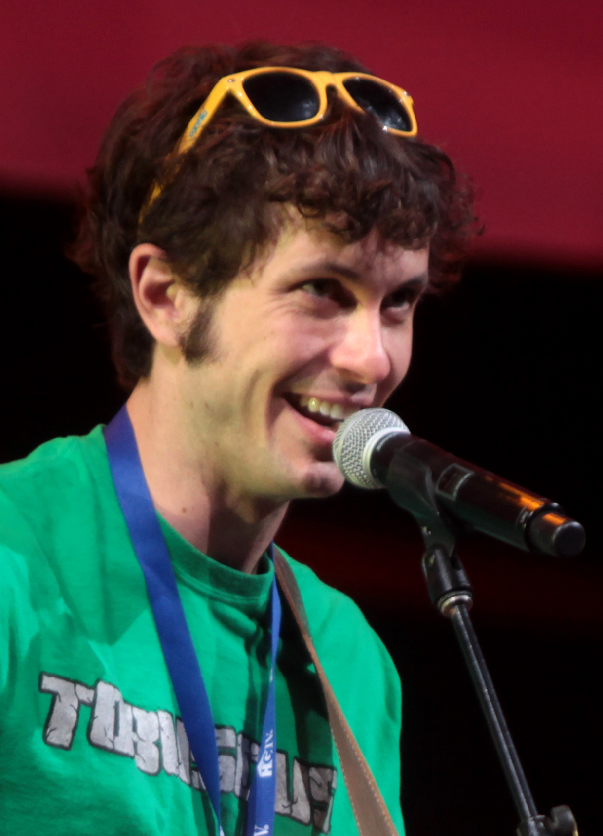 Toby Turner performing at the 2014 VidCon at the Anaheim Convention Center in Anaheim, California.